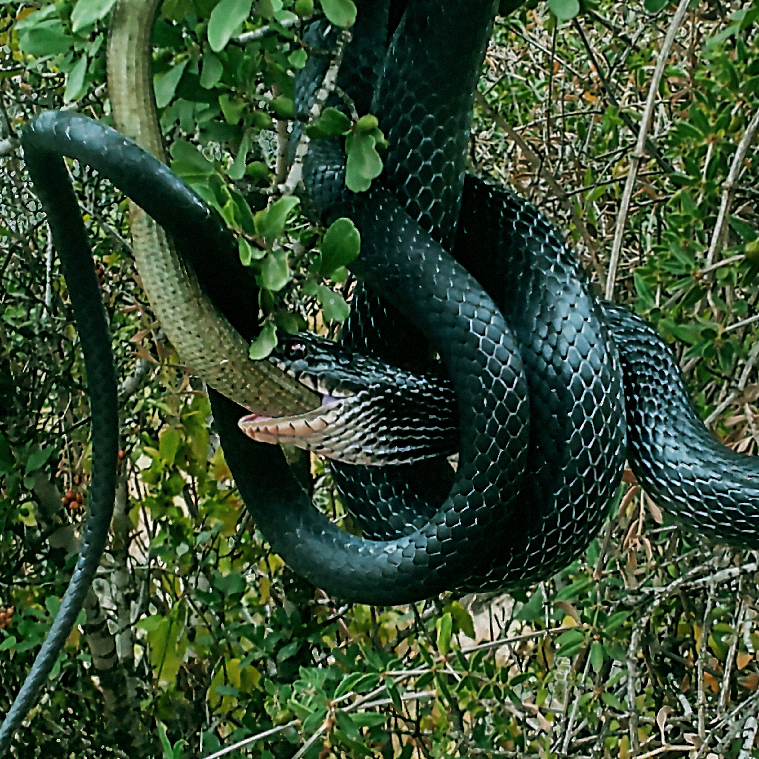 A Dolichophis jugularis preys on a Sheltopusik (Ophisaurus apodus). Valley of Elah, Israel.